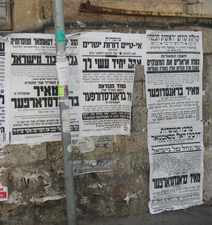 Mourning posters after passing of Rabbi Meir Brandsorfer in Mea Shearim, Jerusalem